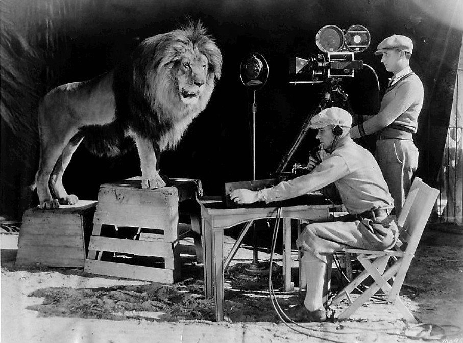 Photo of "Leo the Lion" being recorded for his roar to be heard at the beginning of MGM films. According to Leo the Lion (MGM), this lion's name was Jackie.